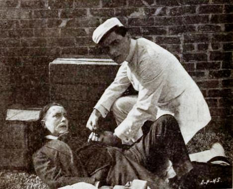 Still from the American mystery film Empty Pockets (1918) with Bert Lytell as the doctor, on page 18 of the November 24, 1917 Exhibitors Herald.